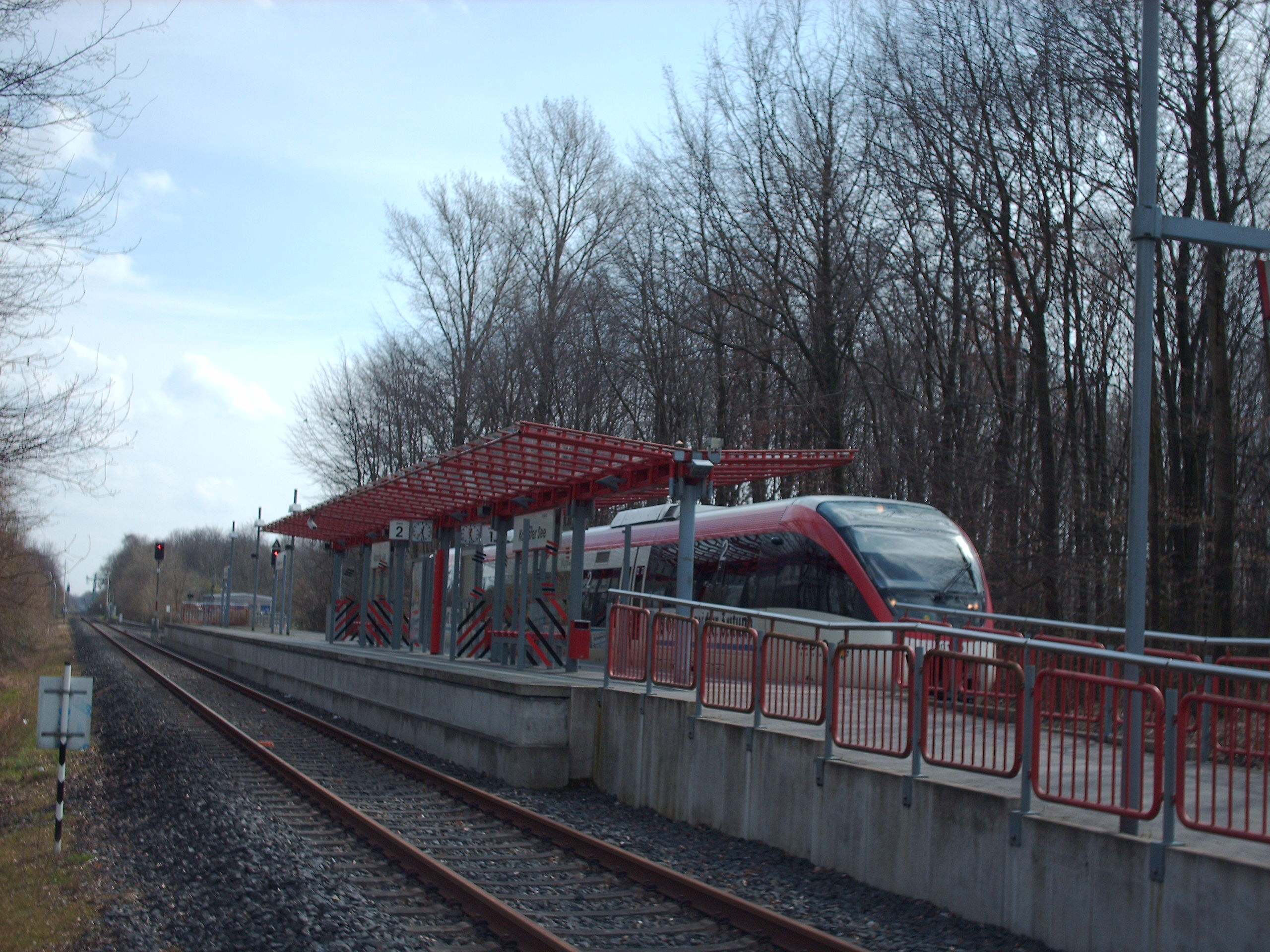 Kaarster See, Kaarst, Germany check usage